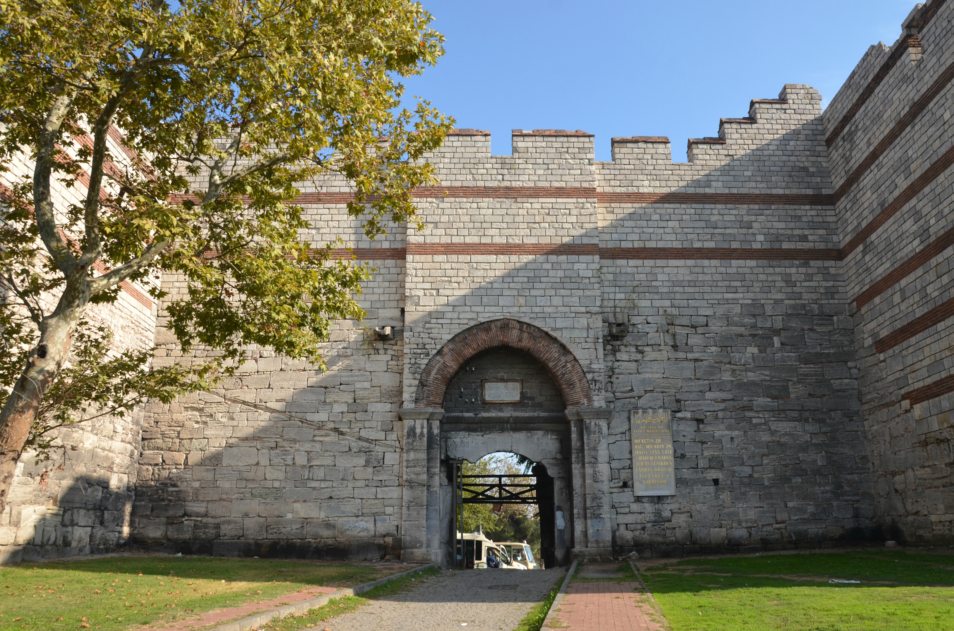 Theodosian Walls of Constantinople, Istanbul